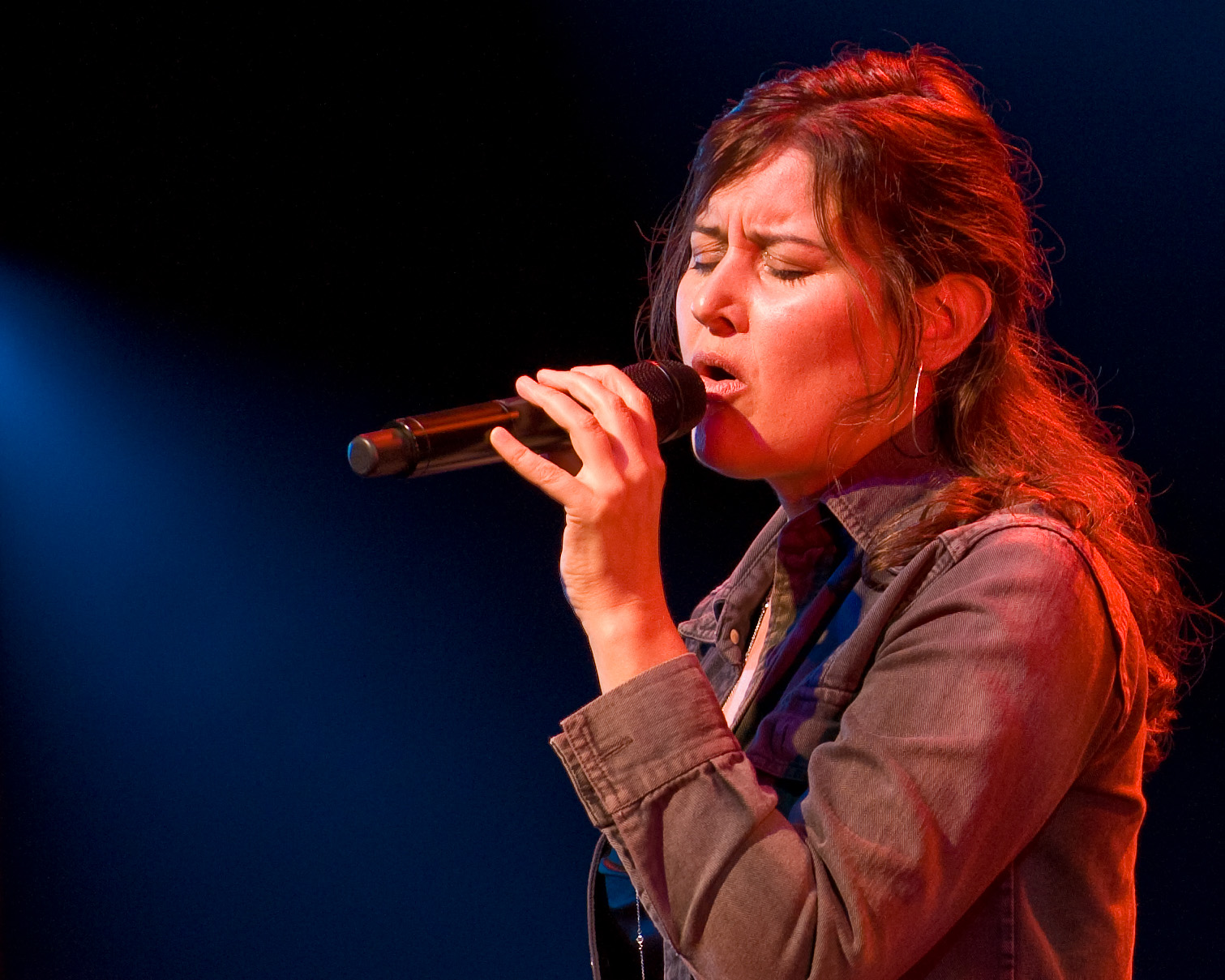 Paula Cole at Edmonds Center For The Arts, north of Seattle, 10-23-09